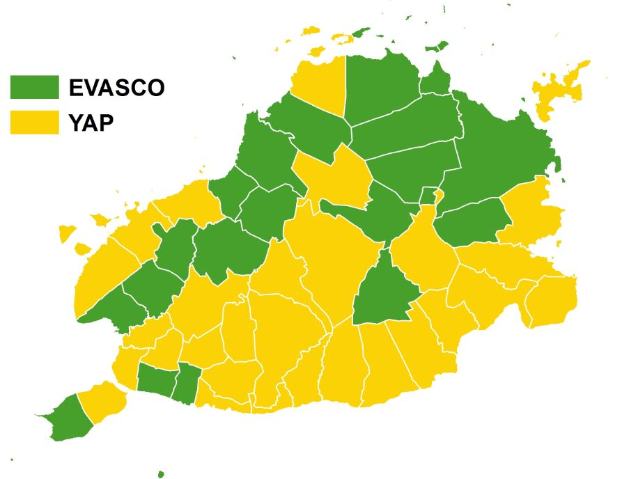 Map showing the official results taken from city and municipal certificates of canvass for Bohol gubernatorial race 2019.